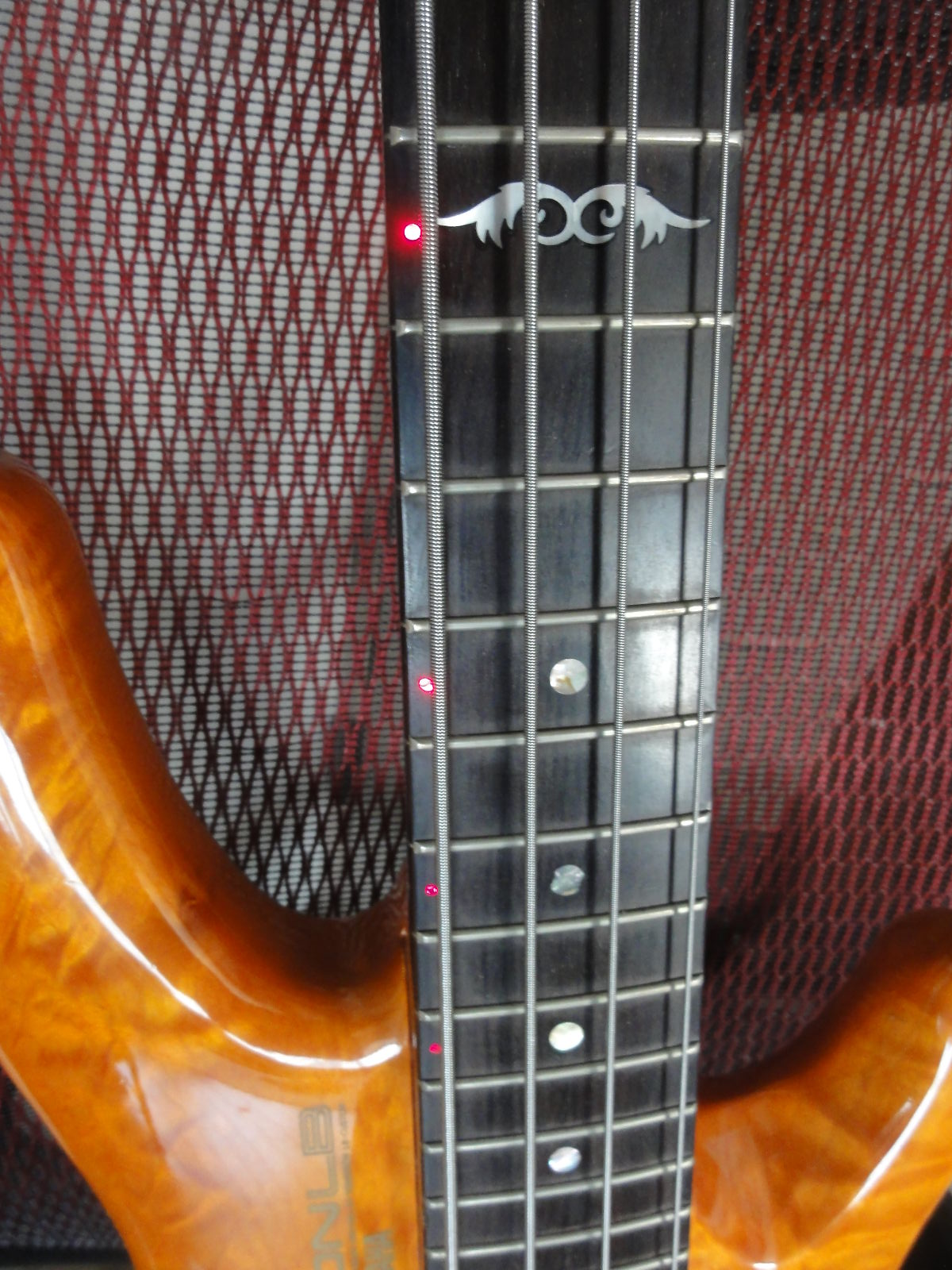 YAMAHA MOTION LB long-scale bass, LED position marks